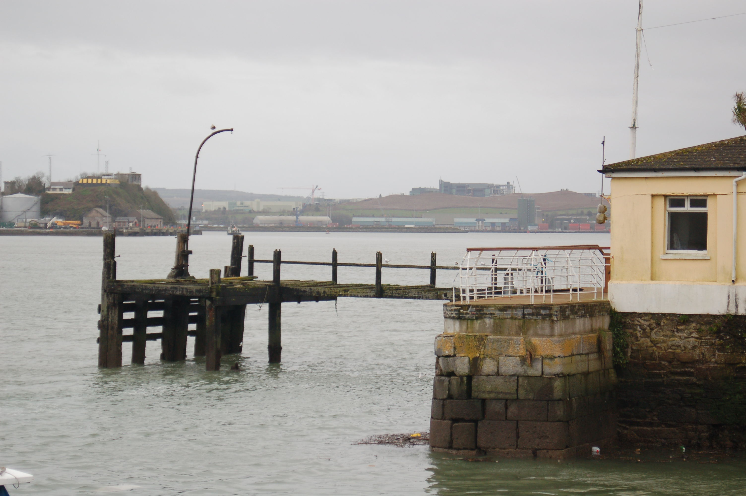 The original pier where some Titanic passengers boarded ferries to take them to the ship off Cobh harbor. Only 44 survived.